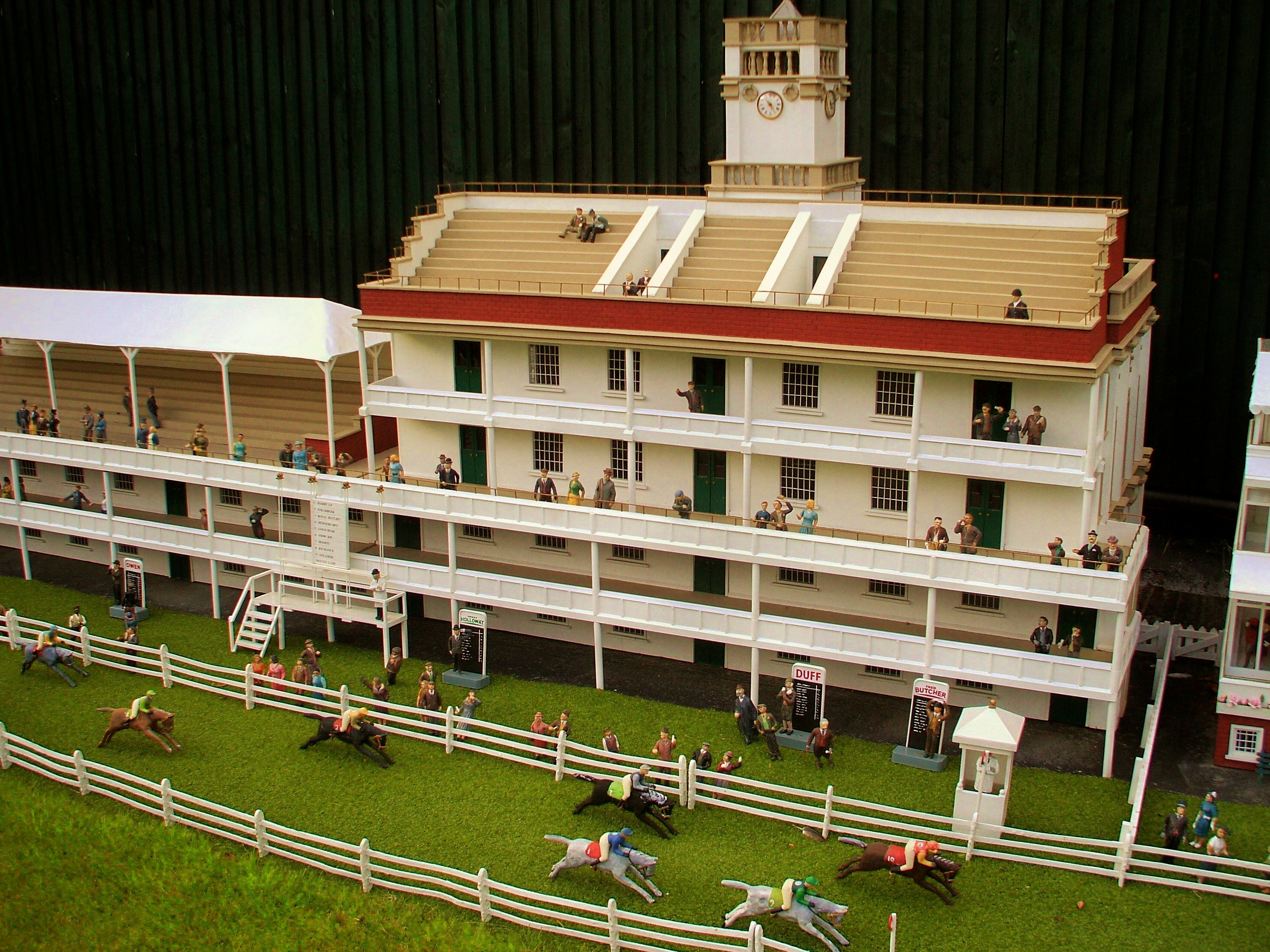 Model of Ascot races at Bekonscot model village, Beaconsfield, Buckinghamshire.